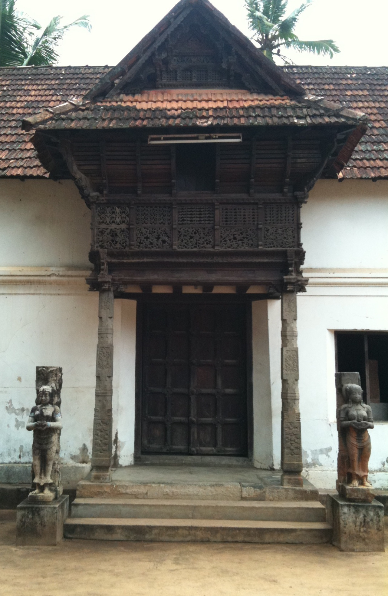 Padmanabapuram palace. Its was ruled by travancore kingdom in India.